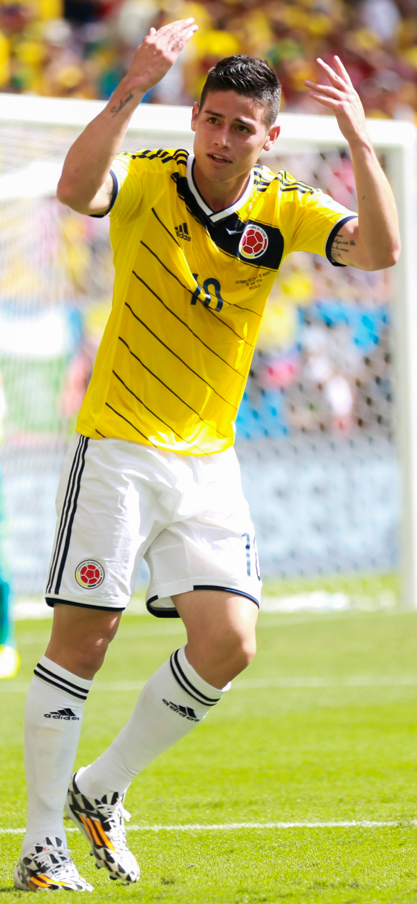 James Rodríguez at the world cup 2014